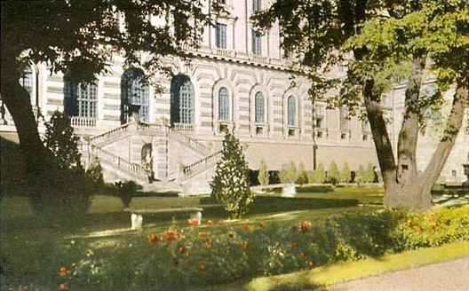 Postcard - Logården ("Lynx Yard") is a small garden between the southeast and northeast wing of Stockholm Palace.